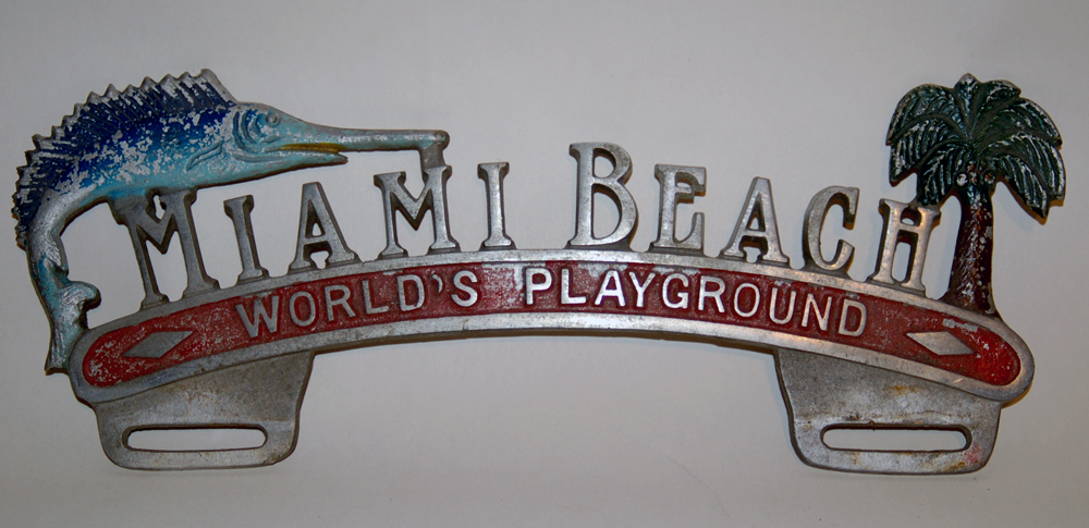 Cast aluminum decorative license plate (or tag) topper promoting Miami Beach.